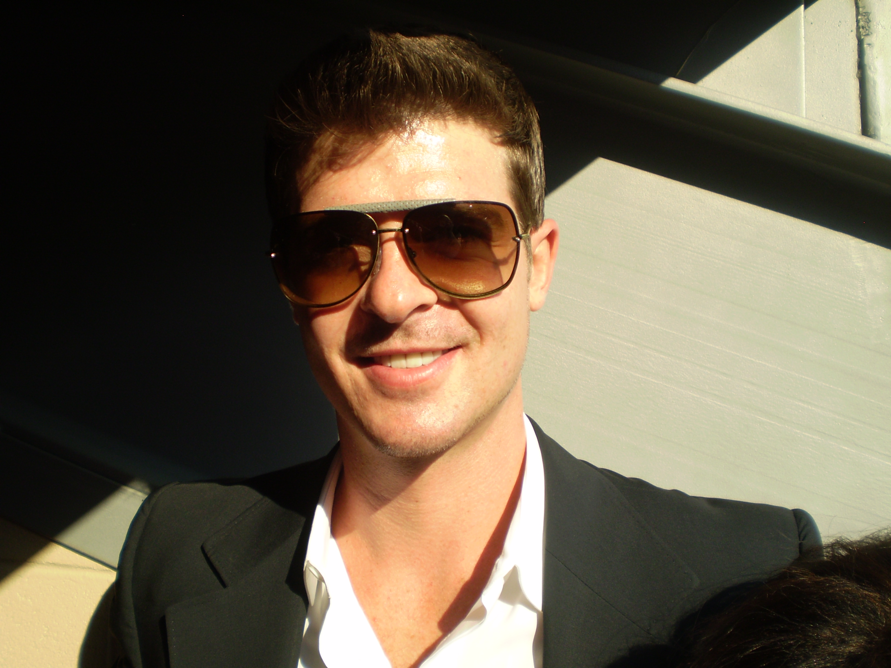 Robin Thicke at the DNC convention on August 29, 2008.